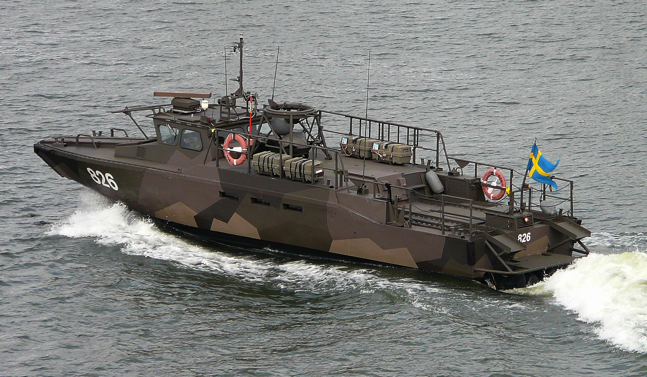 Swedish Combat Boat 90 (CB 90) in the port of Gothenburg